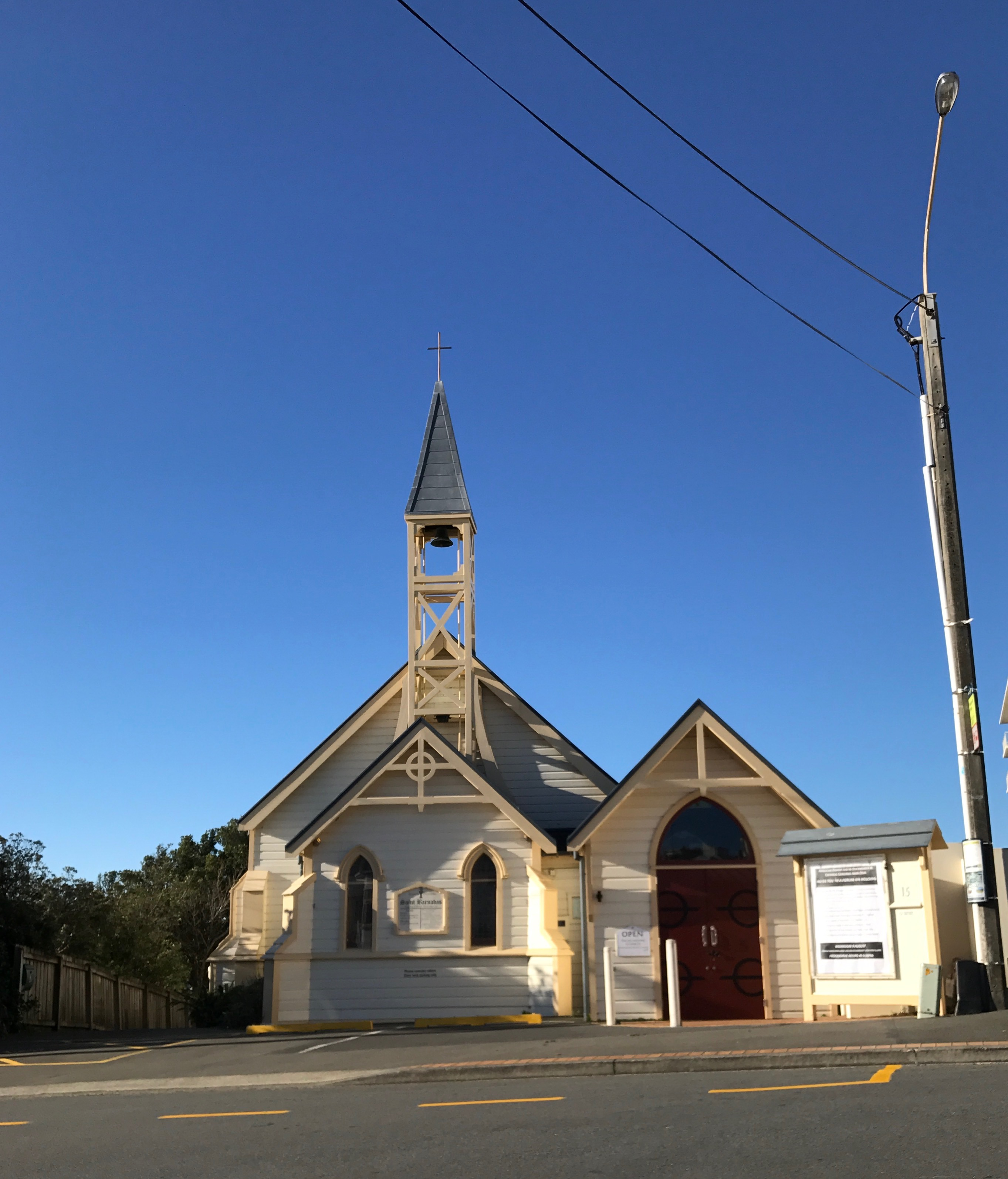 St Barnabas as seen from Maida Vale Rd